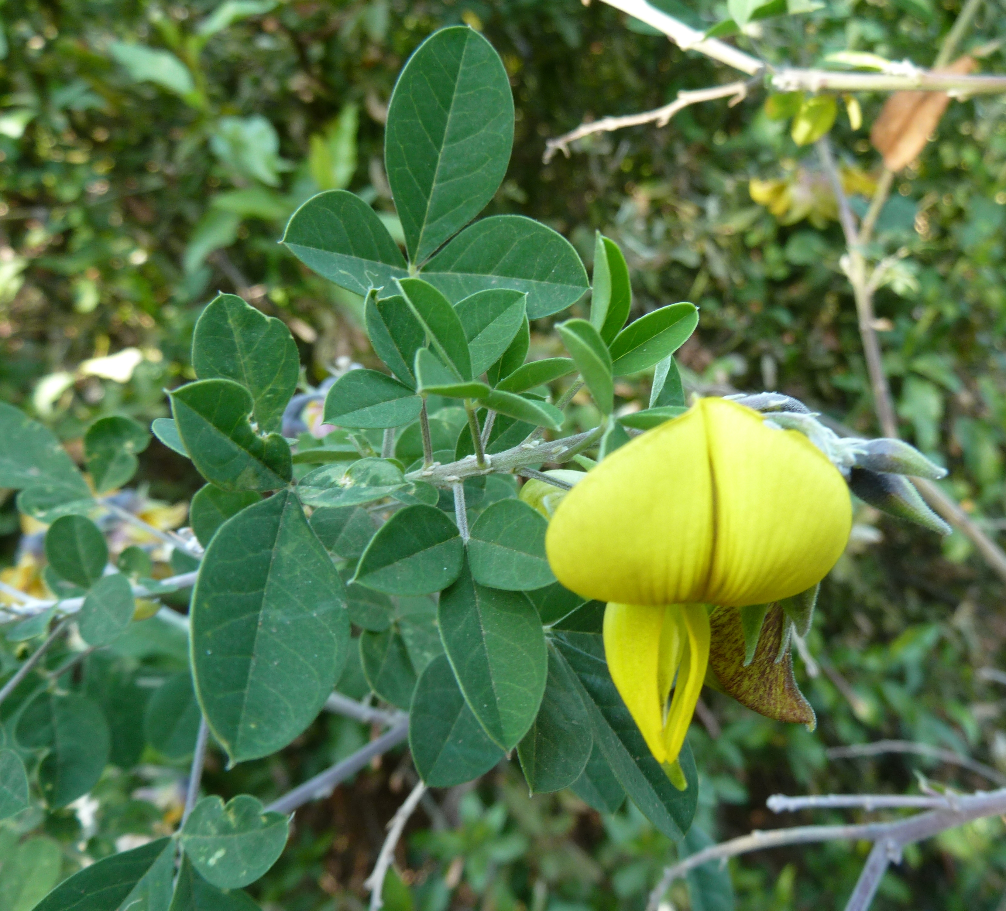 Cape rattle-pod in Jan Celliers Park, Pretoria